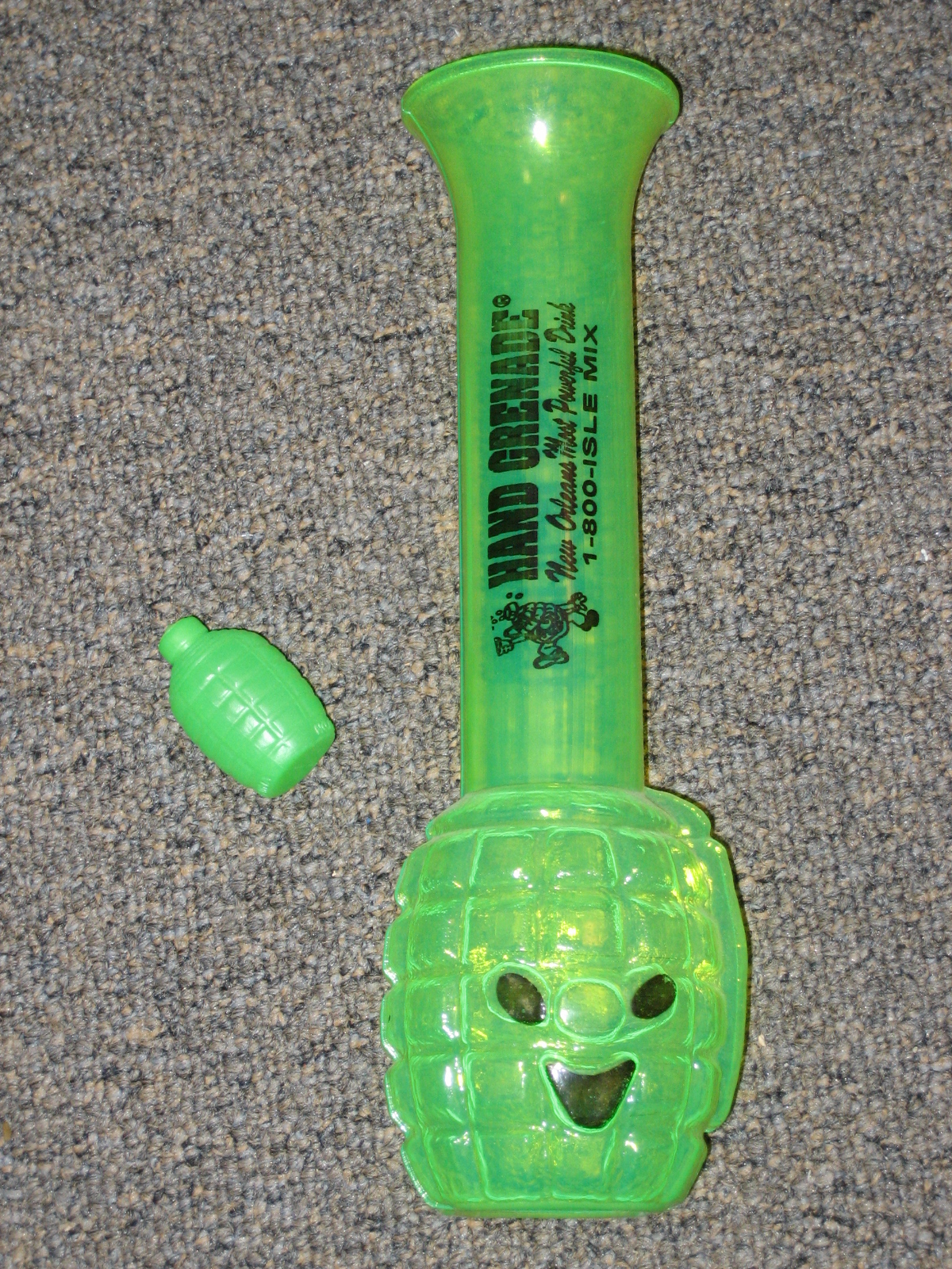 A picture of the container the "Hand Grenade" drink from Tropical Isle in New Orleans with one of the plastic grenades placed in the bottle alongside of it.